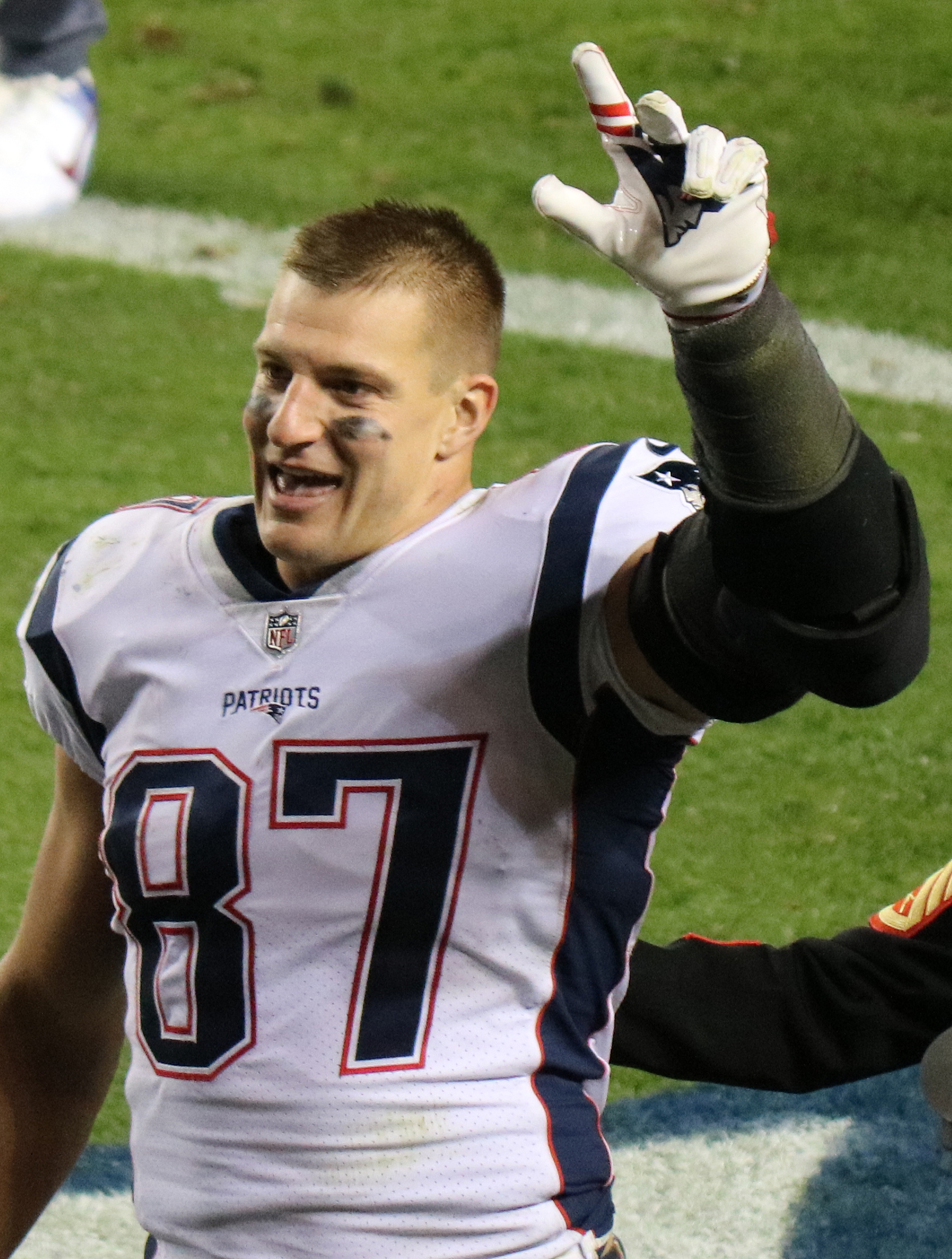 Rob Gronkowski, a player on the National Football League.